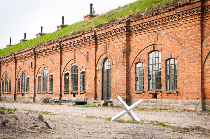 VIIth Kaunas fort barracks